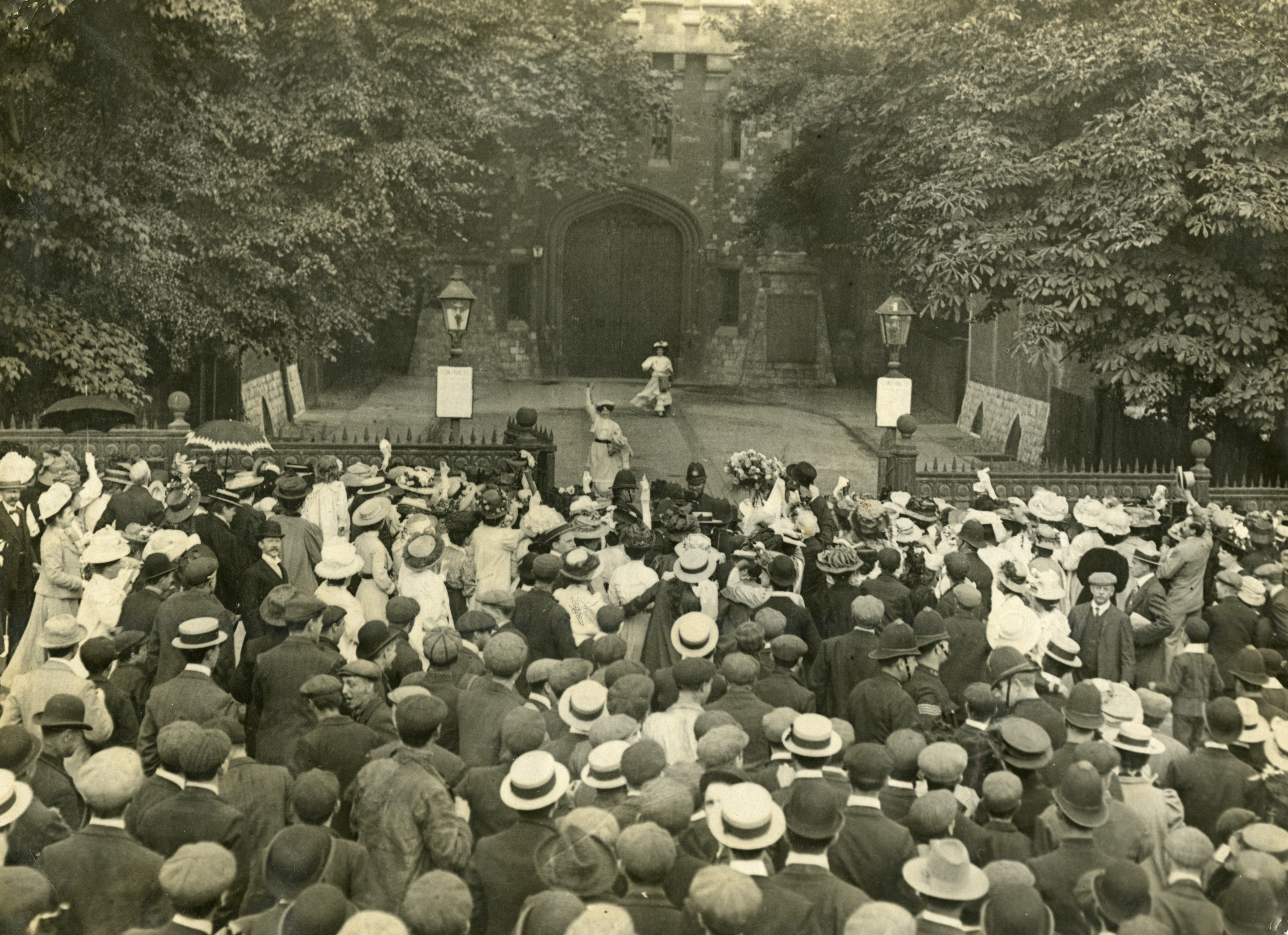 7JCC/O/02/040 Photograph, printed, paper, monochrome, view from above of a crowd at the gates of Holloway Prison, two women running from the prison doors, stuck on paper with manuscript caption 'Release of Mrs Leigh and Miss New - Holloway 22 Aug 1908 - arrest 30 Jun for breaking Mr Asquith's windows'